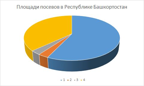 agricultural plants